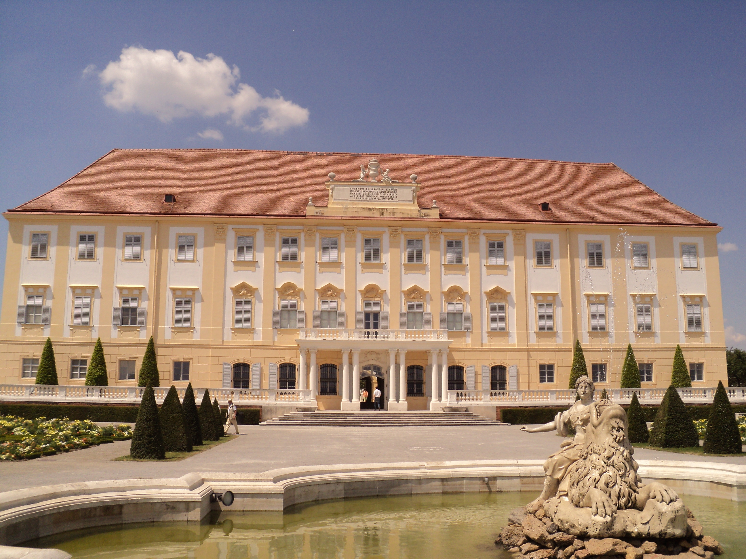 Schloss Hof castle from east.